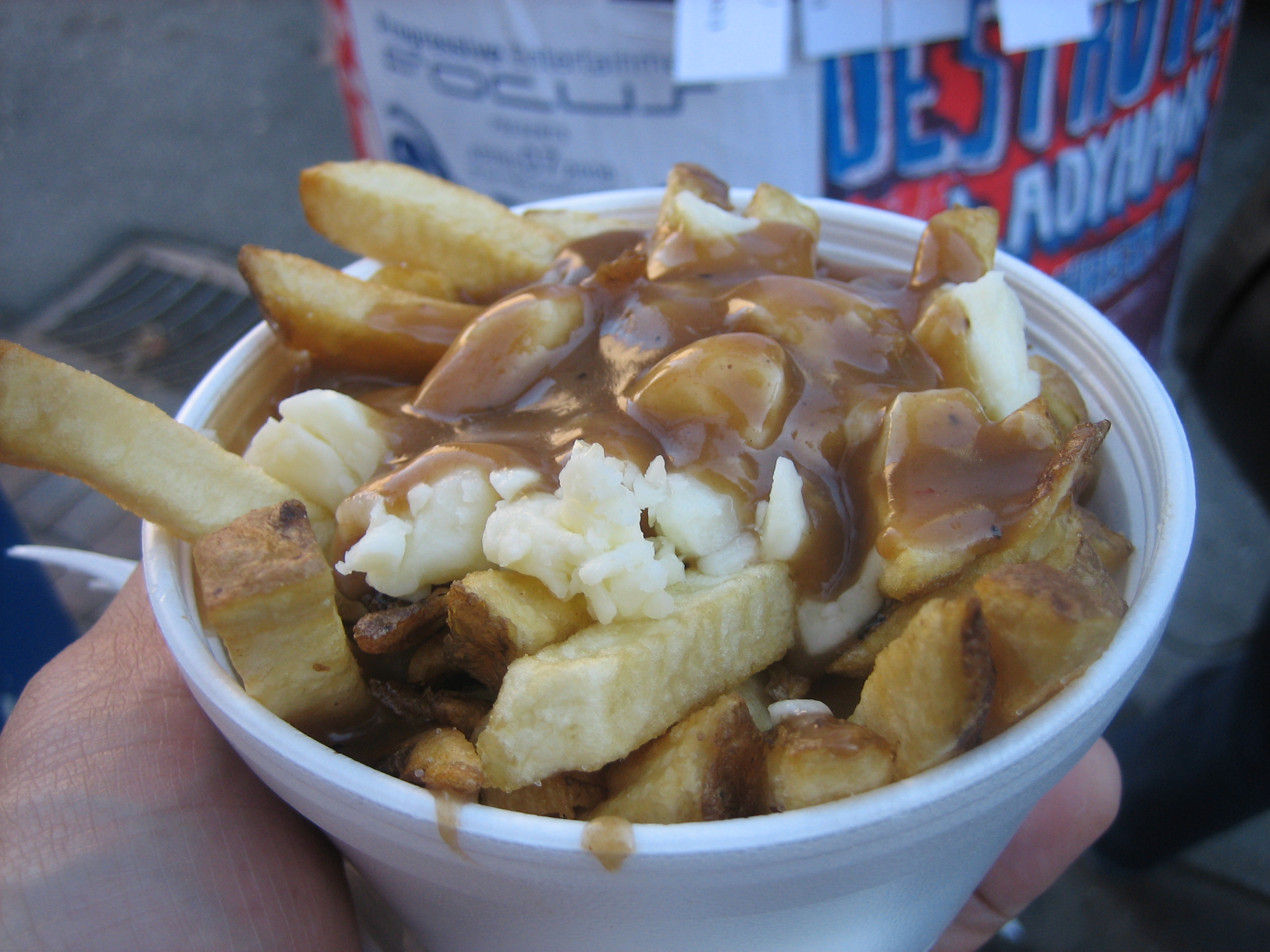 Poutine as served by the Fritz European Fry House at 718 Davie Street in Vancouver, British Columbia, Canada.